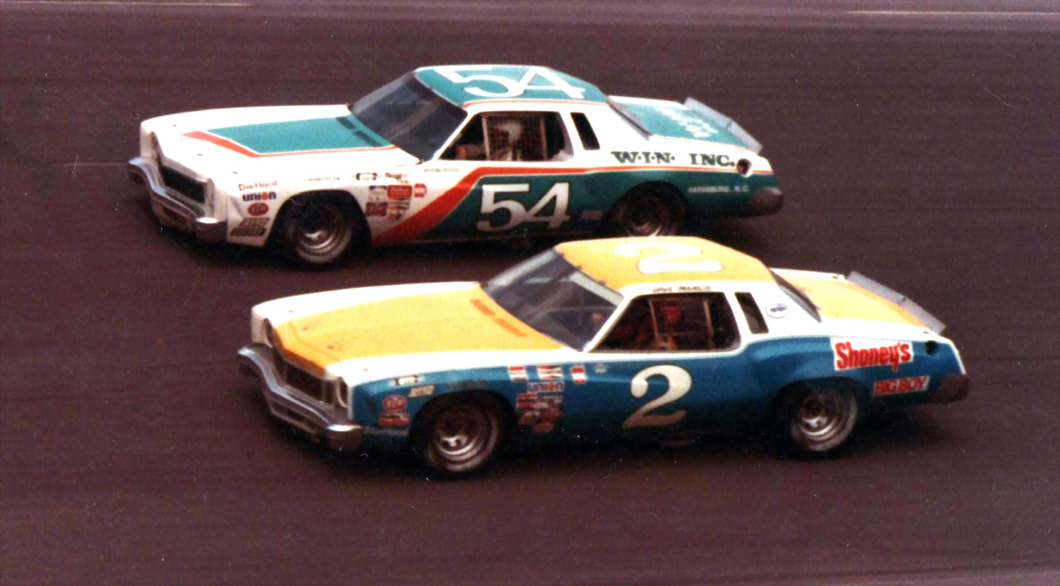 NASCAR drivers #2 Dave Marcis and #54 Lennie Pond racing in 1978